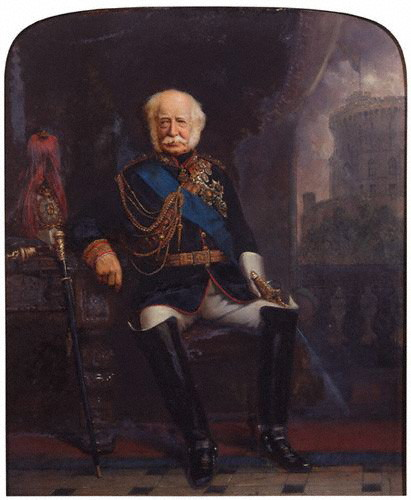 Hand-coloured albumen print of Hugh Gough, 1st Viscount Gough.